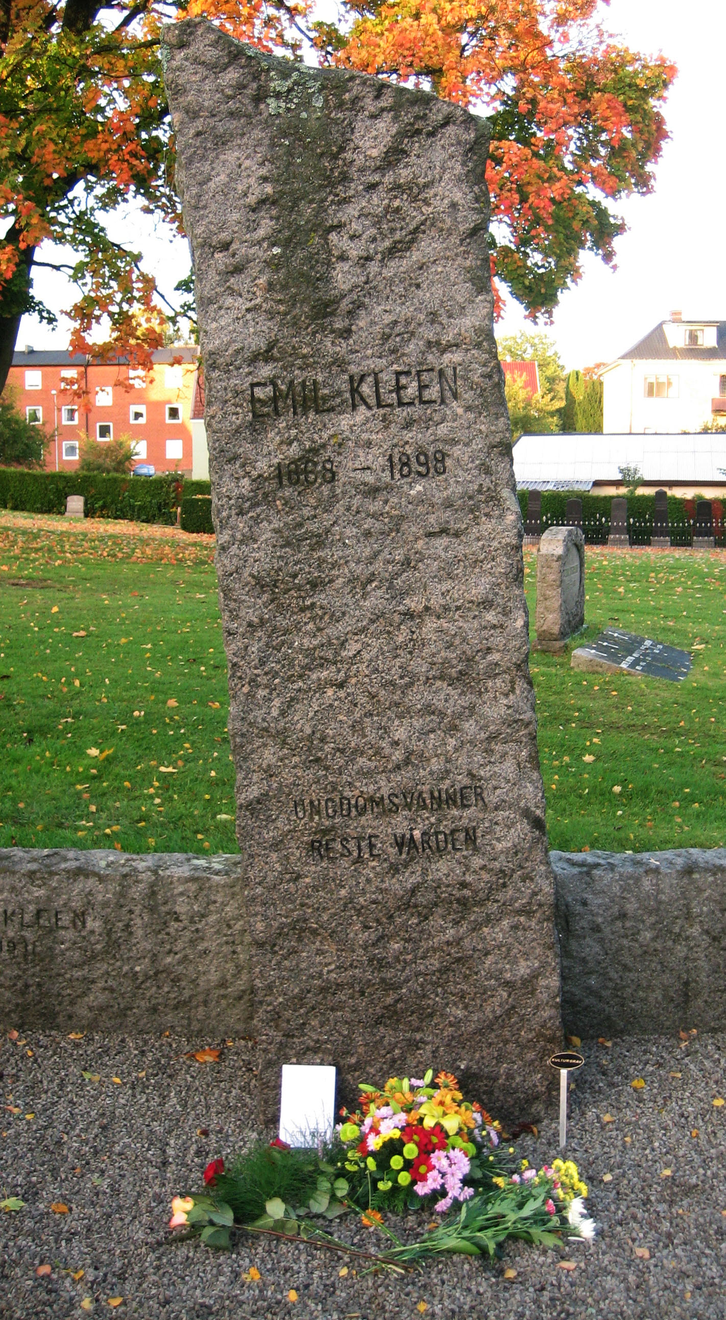 The grave of Emil Kléen (1868-1898) in Höör, Skåne, Sweden. Photo taken by the uploader 081005.